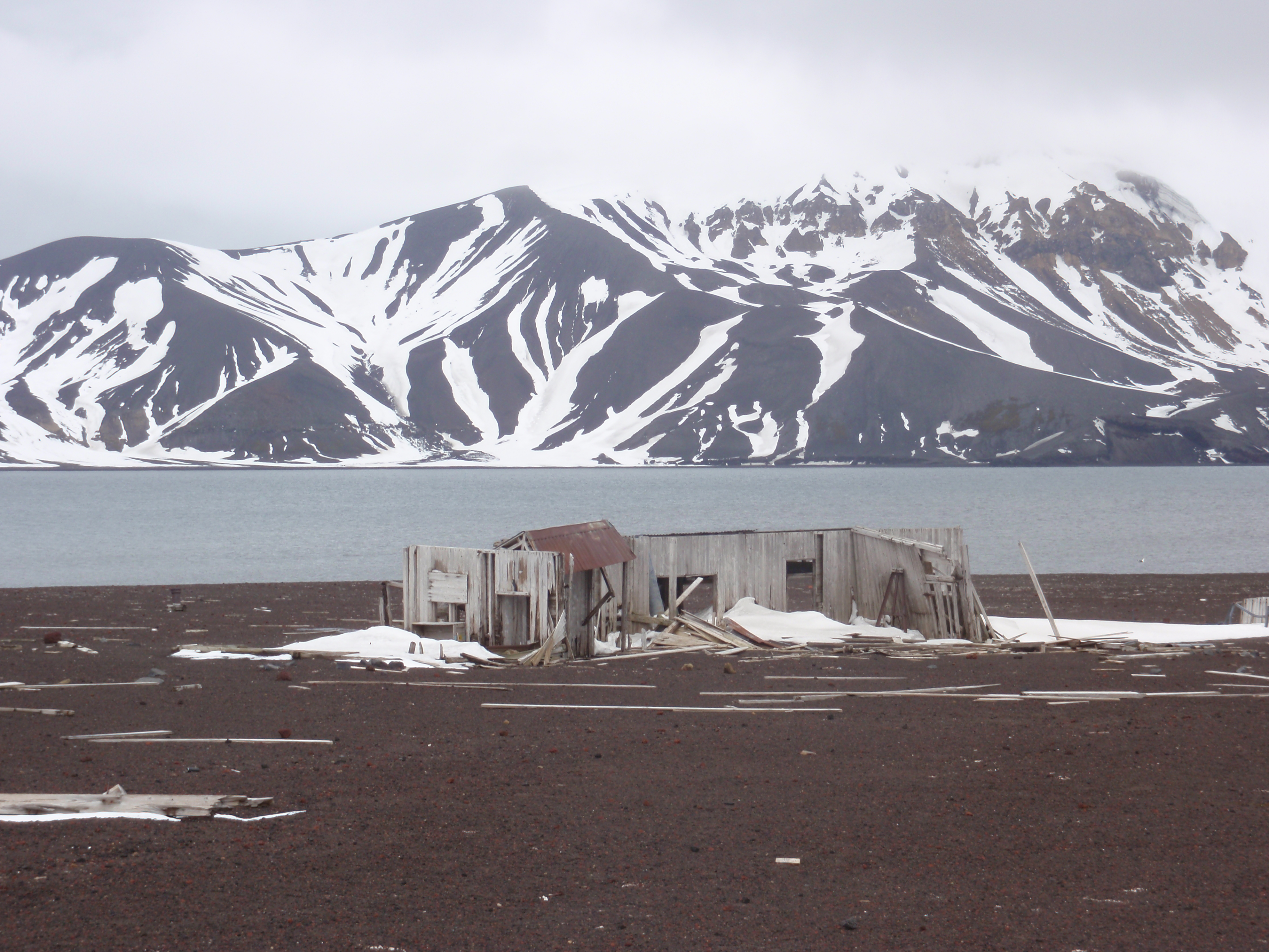 Ruins in Whalers Bay, Deception Island, Antarctica